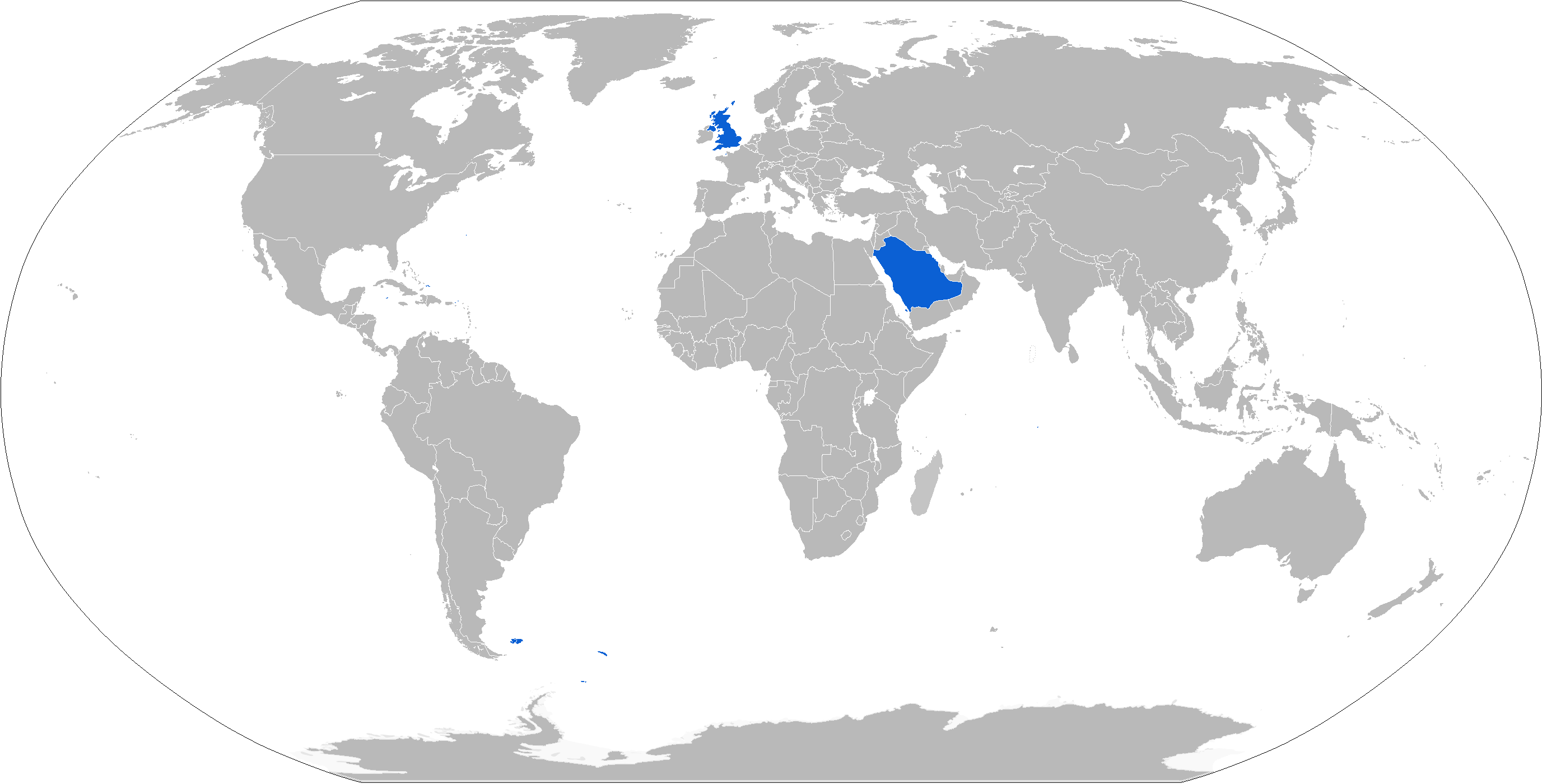 Map with ALARM operators in blue